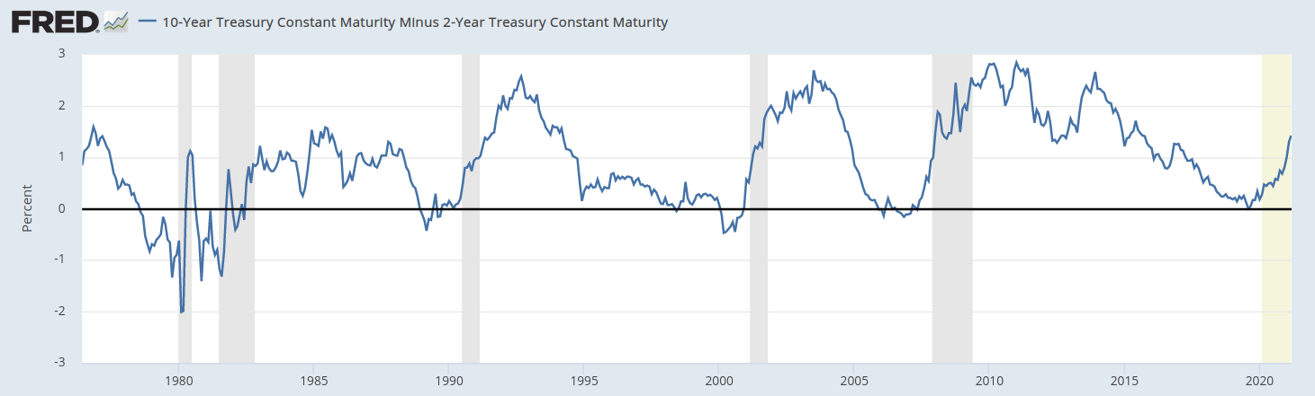 2 to 10 year yield spread